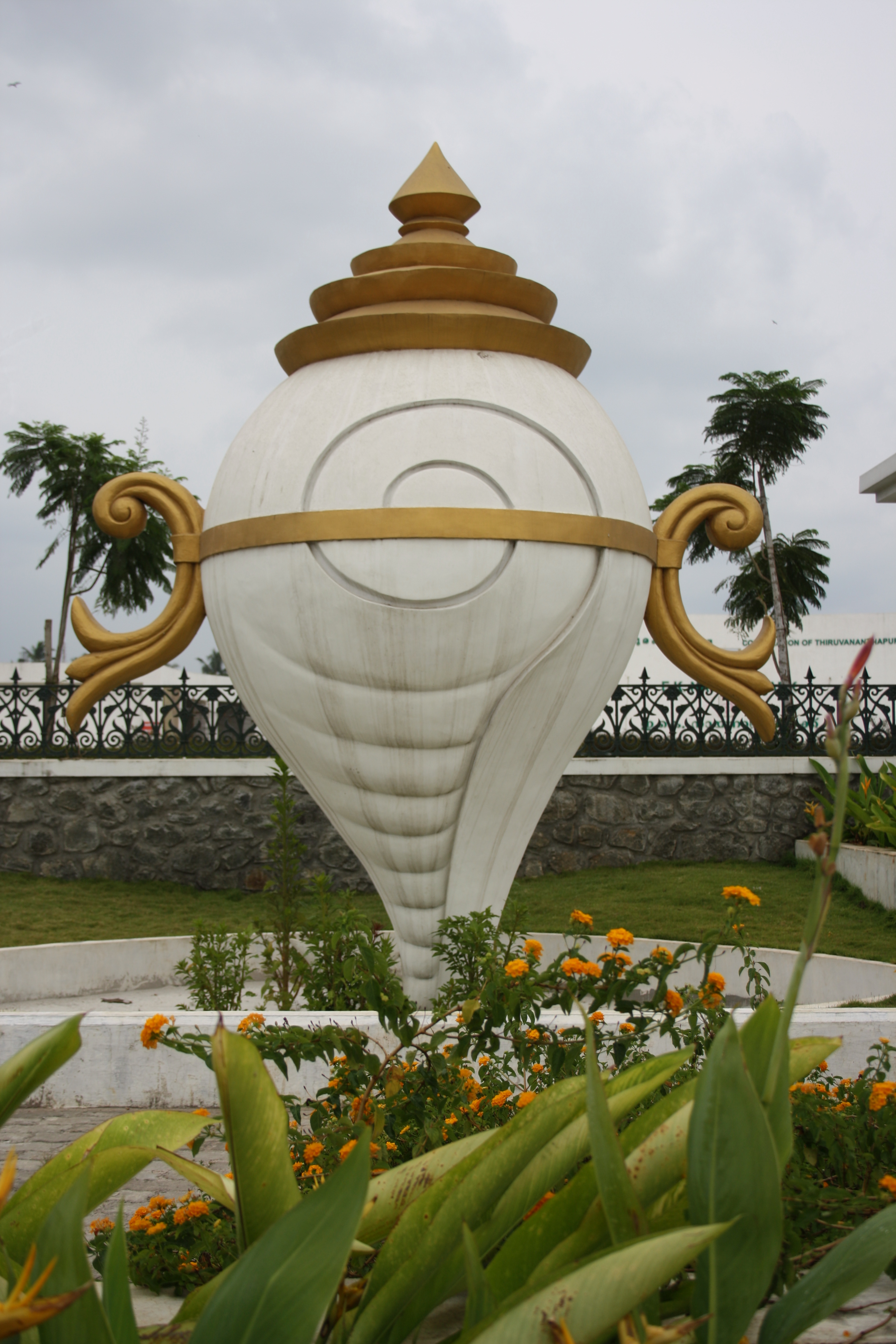 The Royal Emblem of travancore. A model made in front Putharikkandam ground, Thiruvananthapuram.